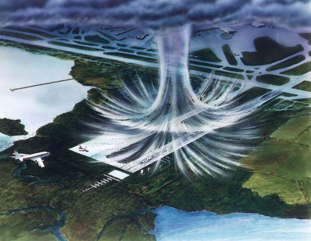 NASA artist's rendering of a microburst. Many are invisible.